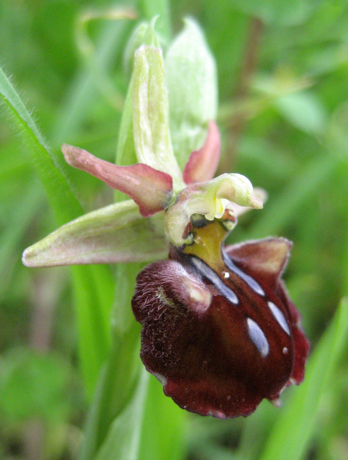 Ophrys mammosa Ephesos, Izmir province, Turkey